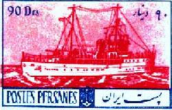 Illustration of the Iranian gunboat Palang (Panther) shelled by the British Royal Navy during surprise attack on Iran, August 1941, as depicted on an Iranian 1950s era postage stamp. Note: The Iranian Babr-class gunboat Palang was built at Cantiere navale di Palermo, Italy, in 1931. It is not to be confused with the former U.S. Navy Allen M. Sumner-class destroyer USS Stormes (DD-780) that was sold to Iran in 1972 and also named Palang.